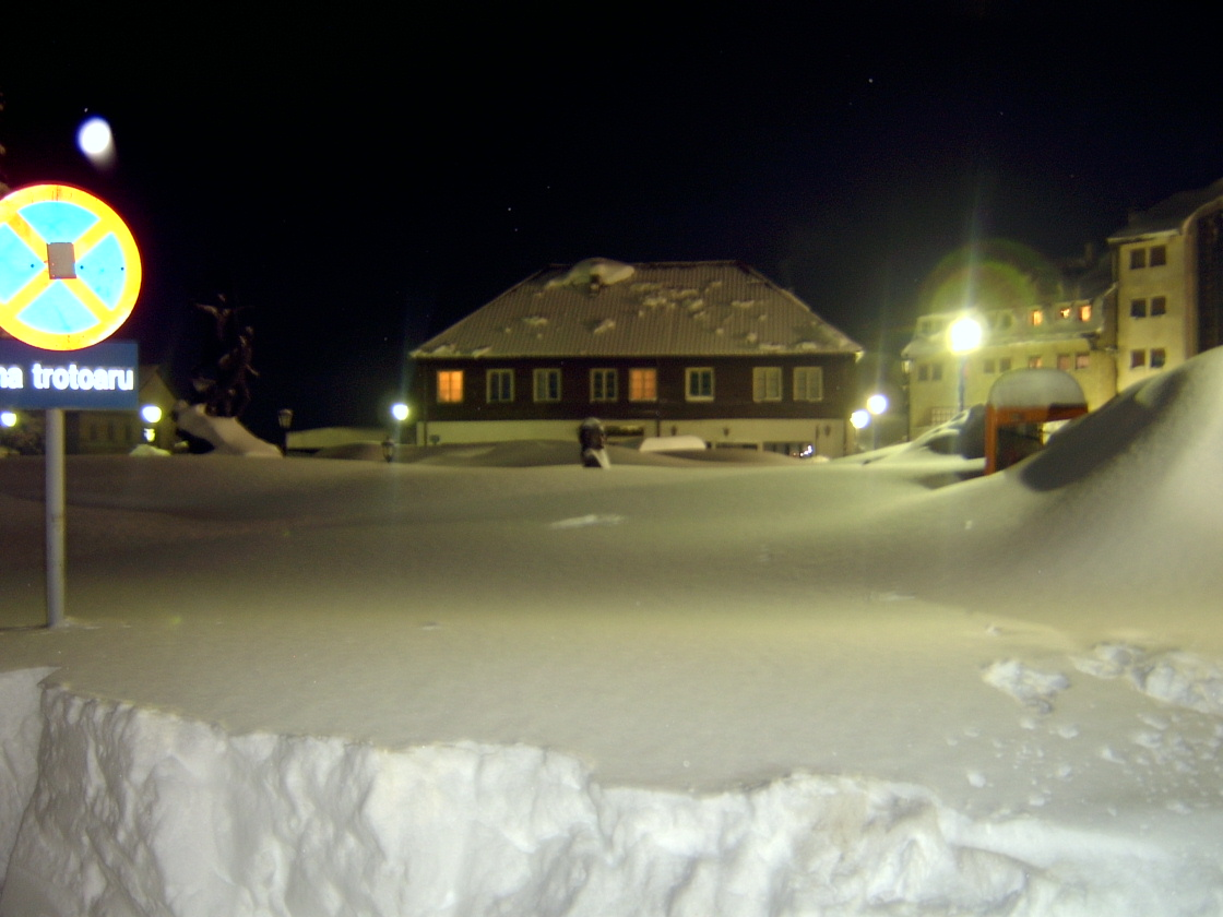 Winter in Kolašin, Montenegro